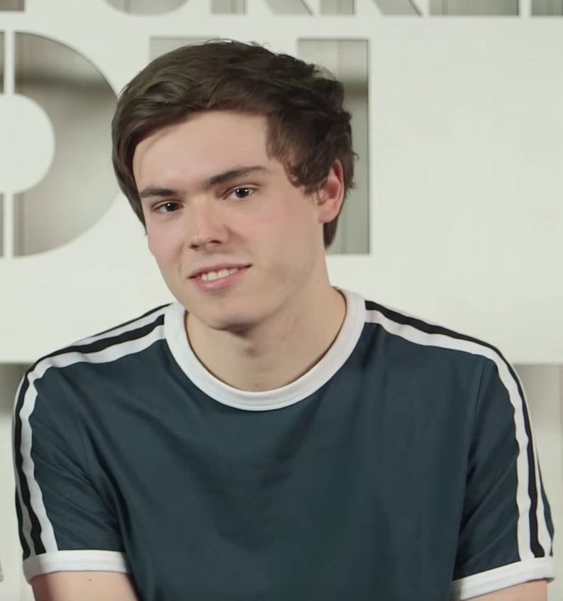 English comedian Rhys James on Spurred On, Tottenham Hotspurs fan channel.